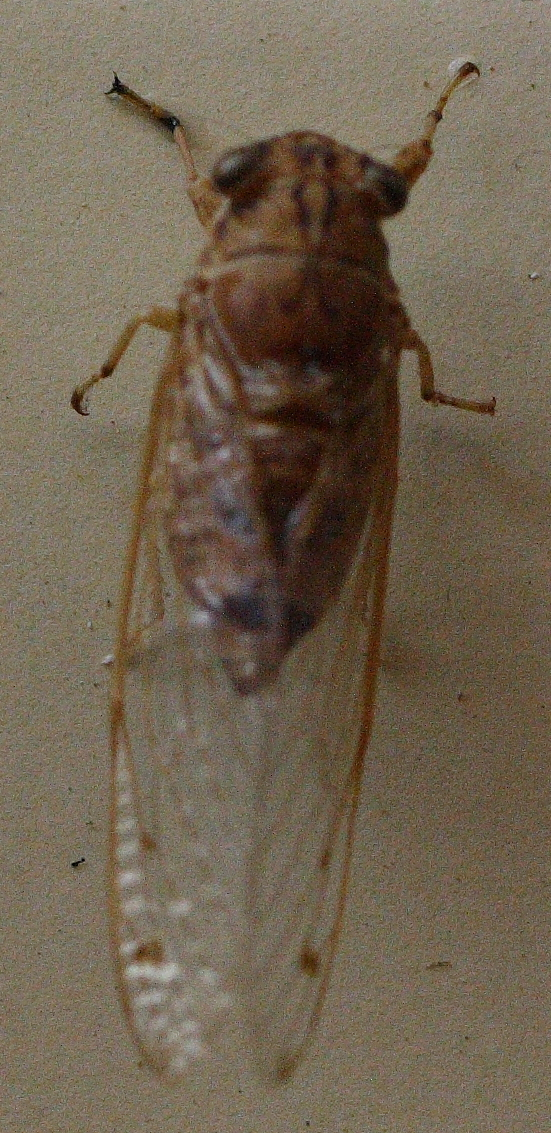 Specimen in the Australian Museum cicada display.